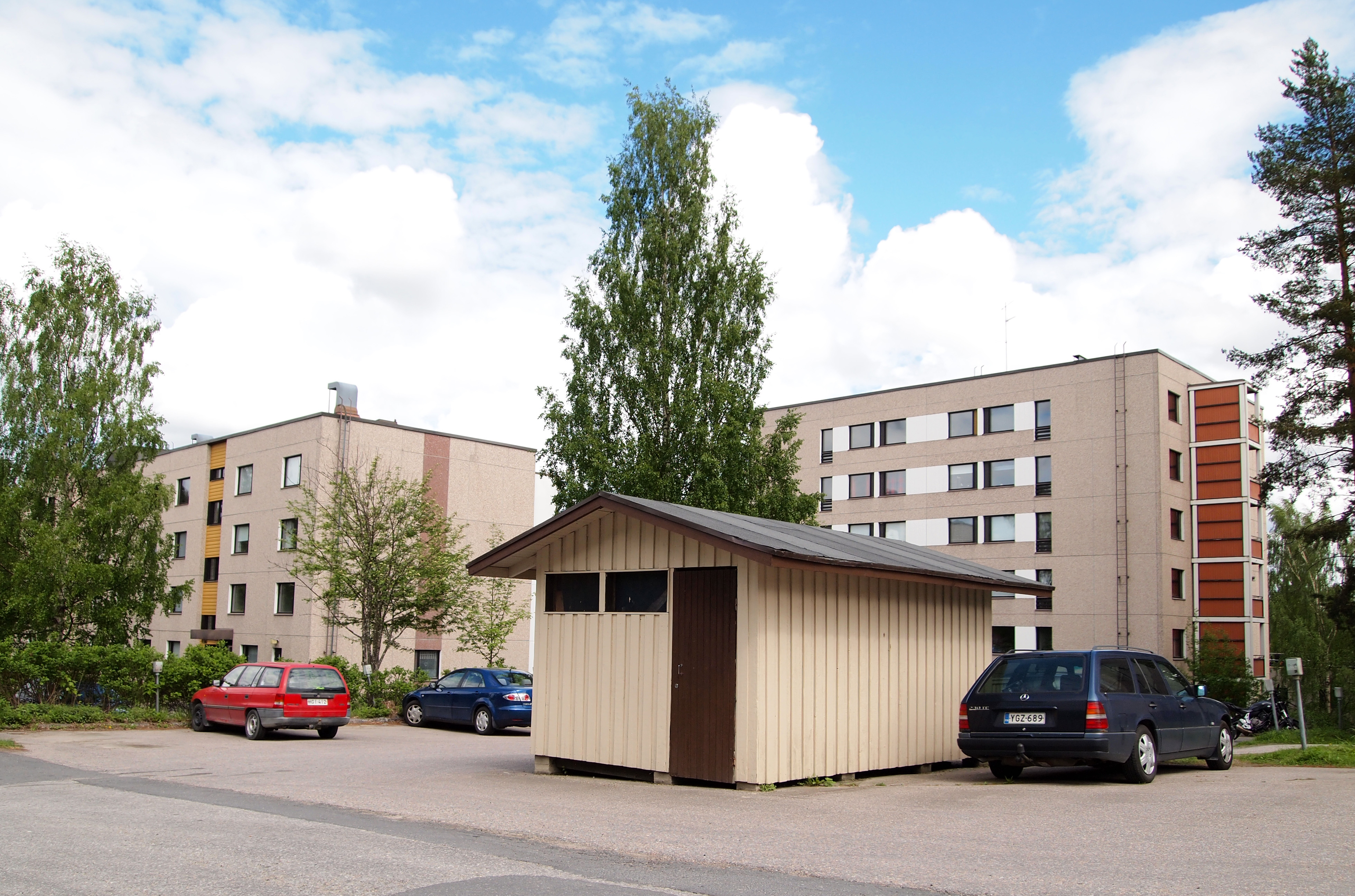 View on the street Pupuhuhdantie in Pupuhuhta subdistrict, Kangasvuori, Jyväskylä. This photograph was taken with an Olympus E-PL1